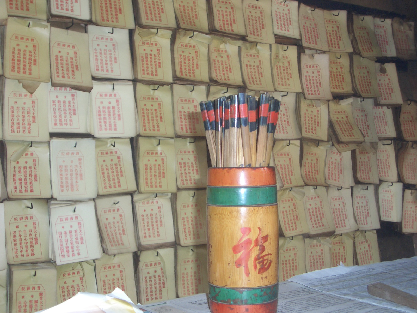 Photo take by 9old9 on 31/01/2006